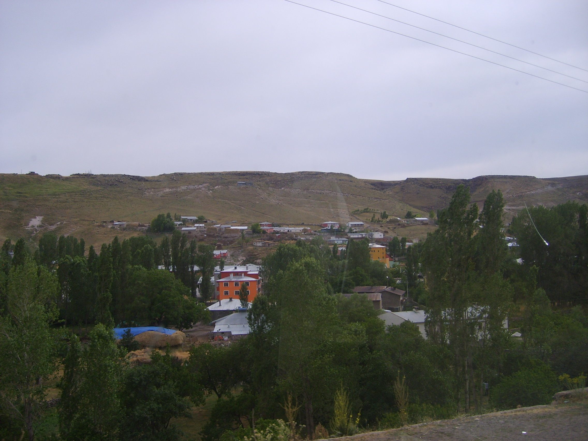 Panorama of Digor city in Digor District of Turkey. Faults in the picture are caused by taking it through a window of a bus.